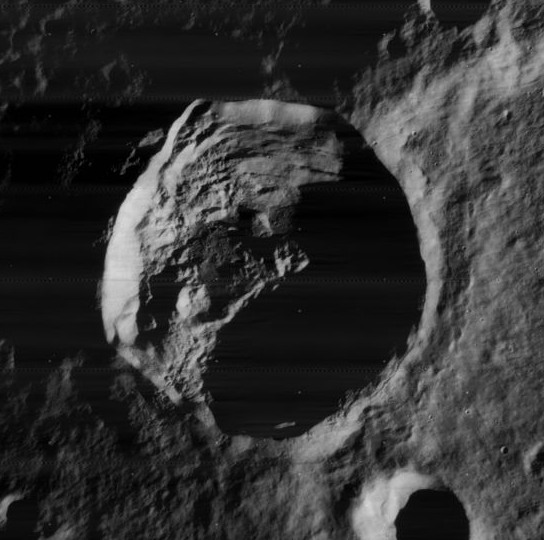 Anaxagoras, on the moon.